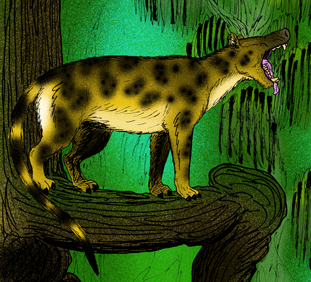 Crop of file in filename